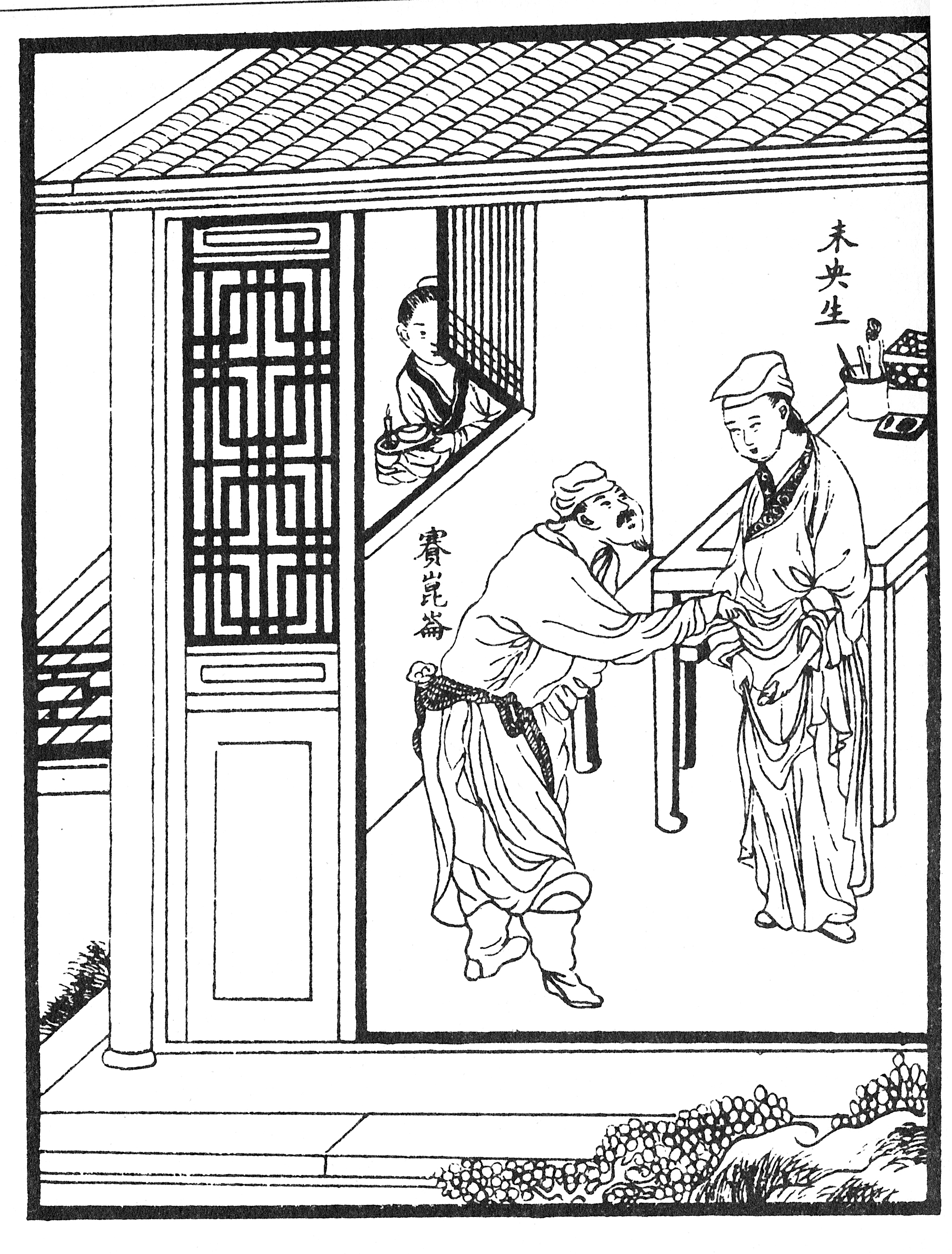 Double waist band grid door in Li Yu's The Carnal Prayer Mat